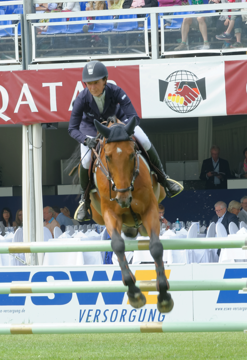 CSIYH* int. Springprüfung nach Strafpunkten und Zeit Internationales Pfingstturnier Wiesbaden 2015 The making of this document was supported by the Community-Budget of Wikimedia Germany.